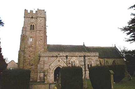 Spennithorne, The Church of St Michael & All The Angels. This Church is on the northern boundary of the O/S grid which it occupies, just to the east of centre.